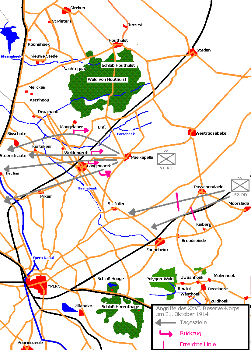 Map of Ypern-Battlefield 10/21/1914 - Situation of the German XXVI. Reserve-Corps